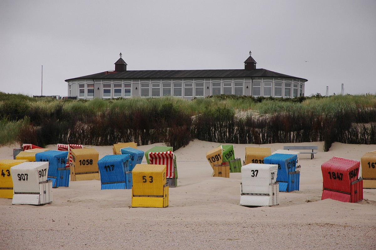 'Strandhalle' Langeoog, photo taken at the north beach.